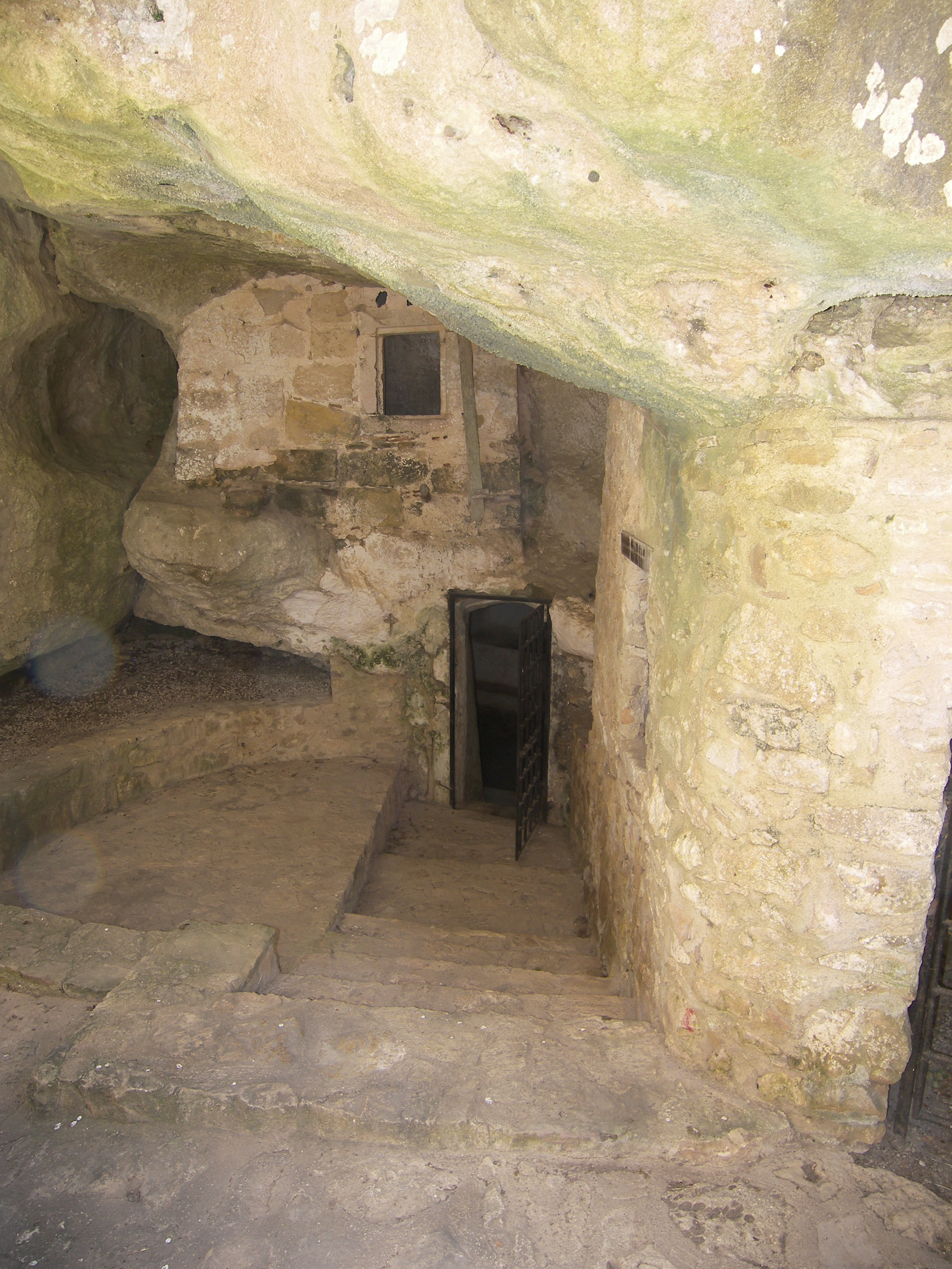 Please see filename